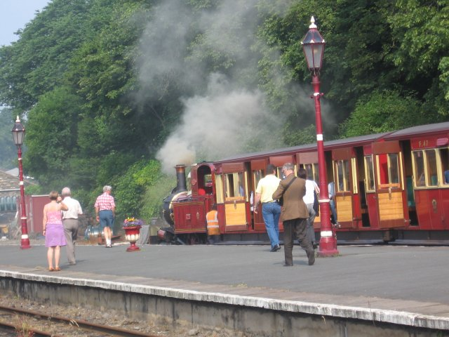 Douglas Terminus. Isle of Man Steam Railway First train of the day awaits departure for Port Erin